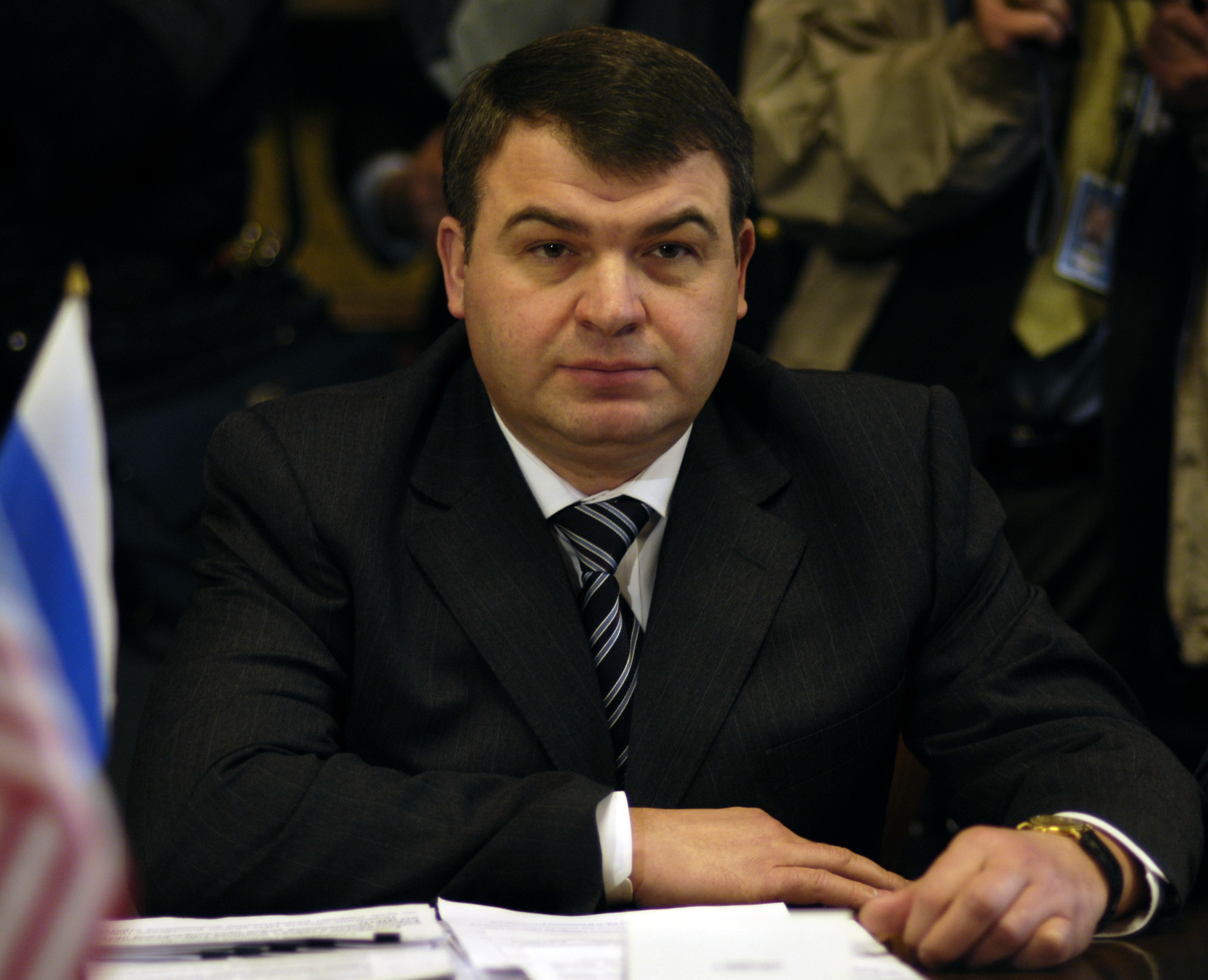 Anatoliy Serdyukov, a Russian politician.